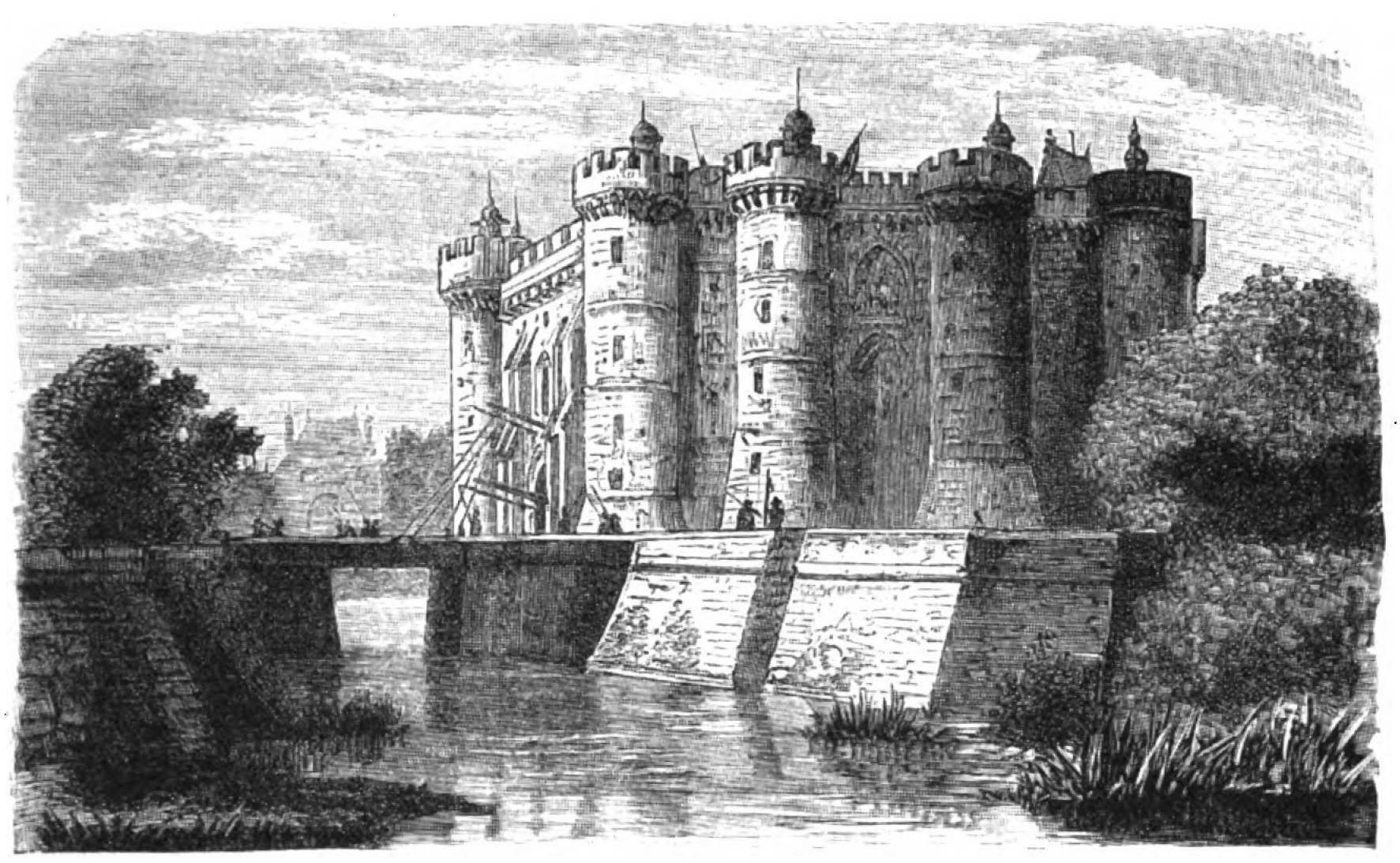 no caption